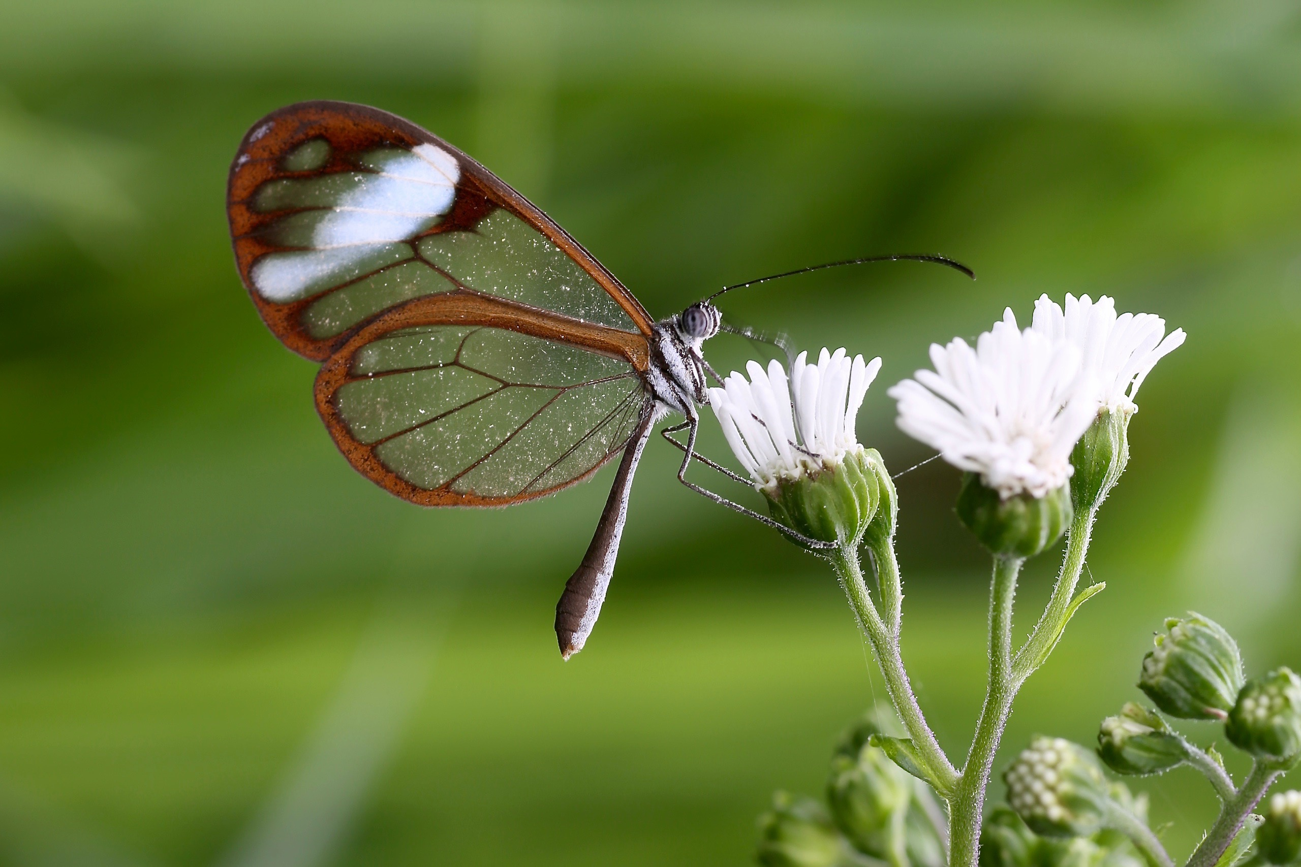 Ecuador, Mindo, Yellow House trail